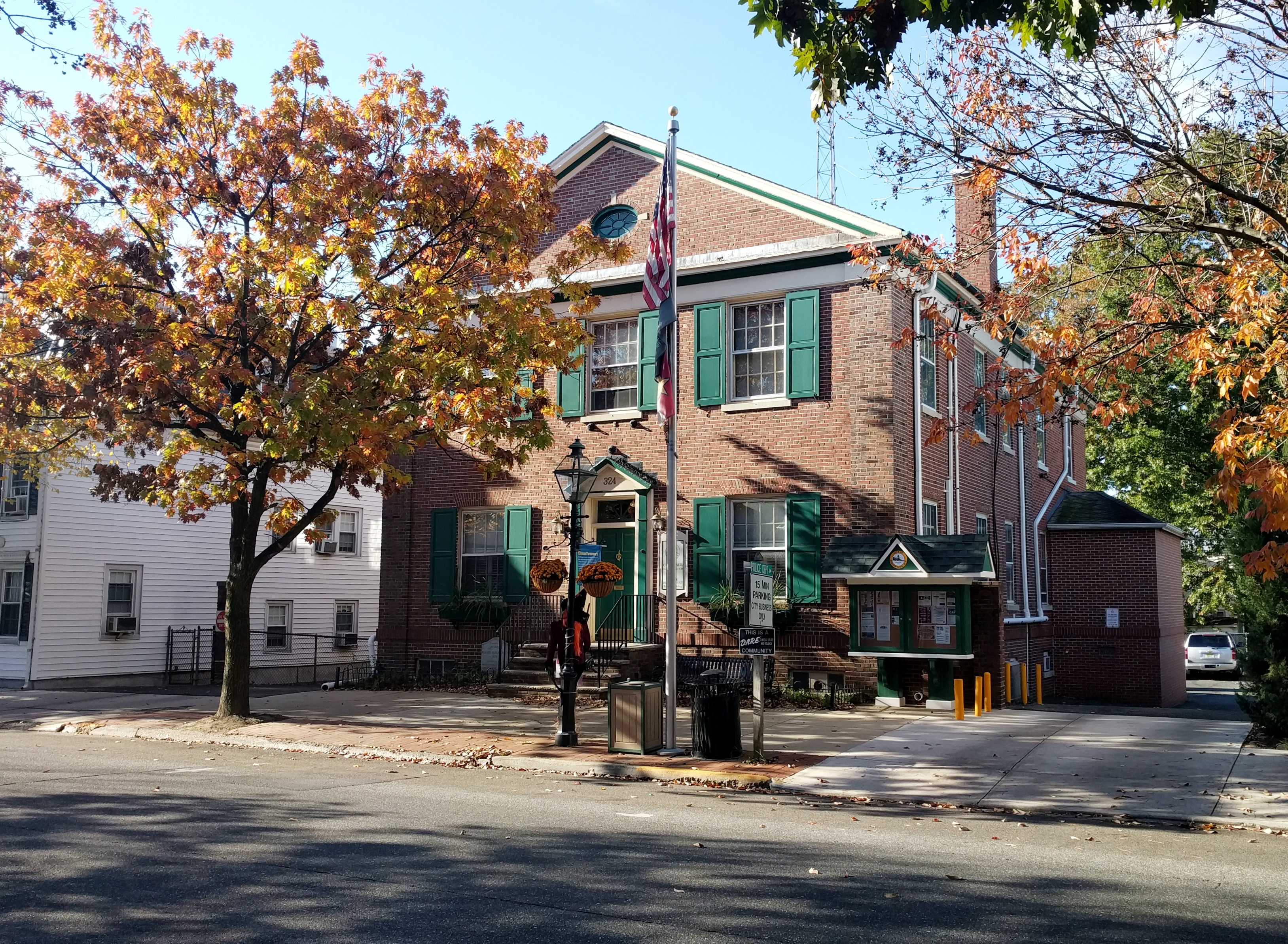 Photo showing the front of the Bordentown City Hall at 324 Farnsworth Avenue (County Route 545) in Bordentown, New Jersey.